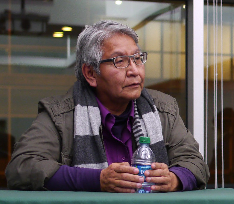 During a panel at the exhibition "Interwoven: Indigenous Contemporary"